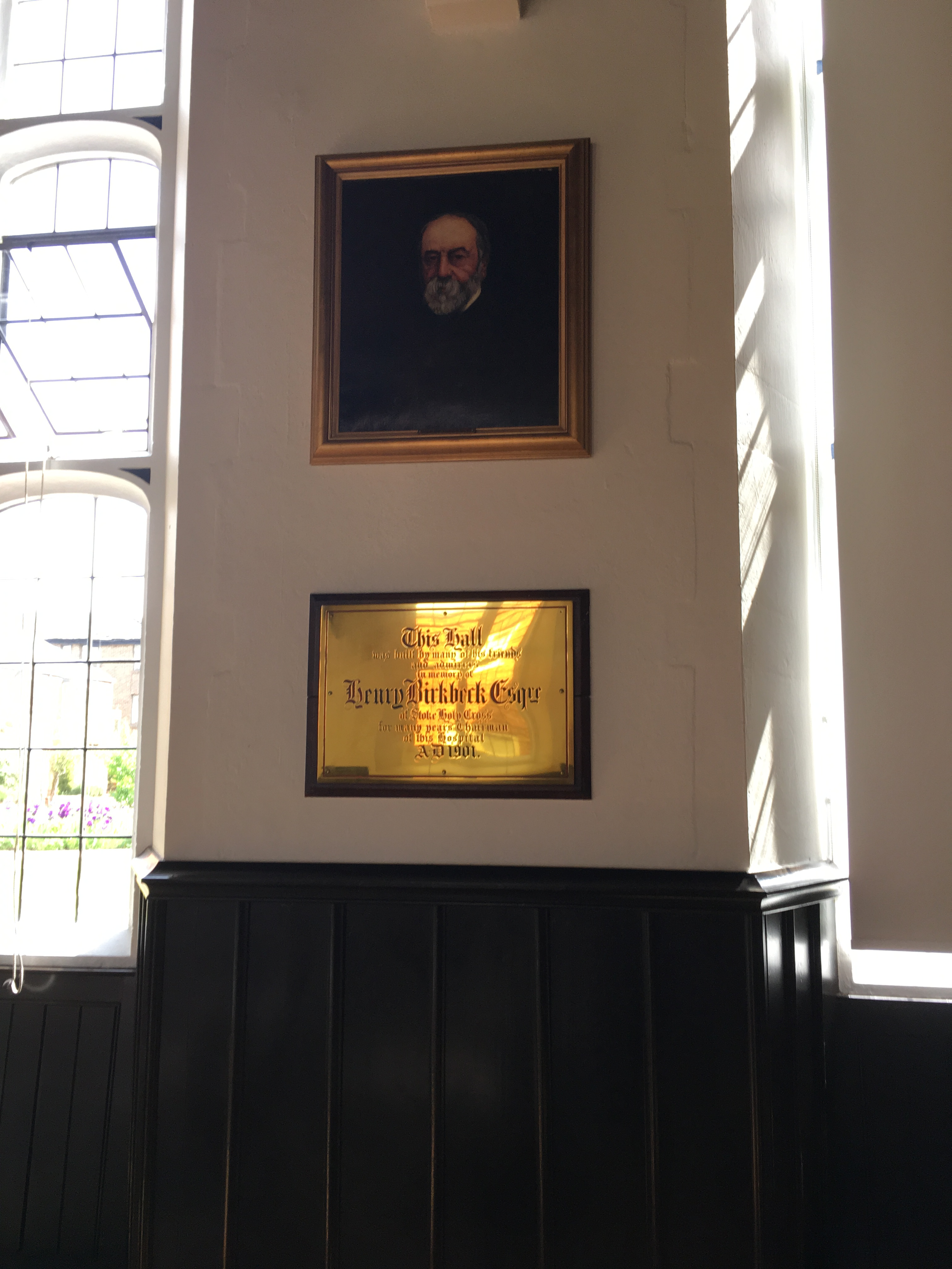 A Plaque on the wall in the Great Hospital, Norwich along with a painting of Henry Birkbeck Esqee